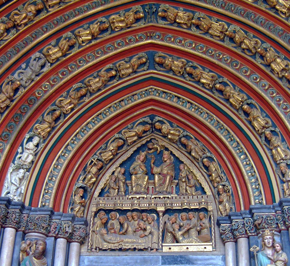 Maastricht, the Netherlands, Basilica of St Servatius. Detail of early Gothic South Portal or "Bergportaal" with scenes from the life of the Virgin Mary on the central panels, the family tree of Saint Servatius ("Holy Kinship") on the inner archivolt and figures from the Old Testament on the outer archivolts (ca 1170-1215).